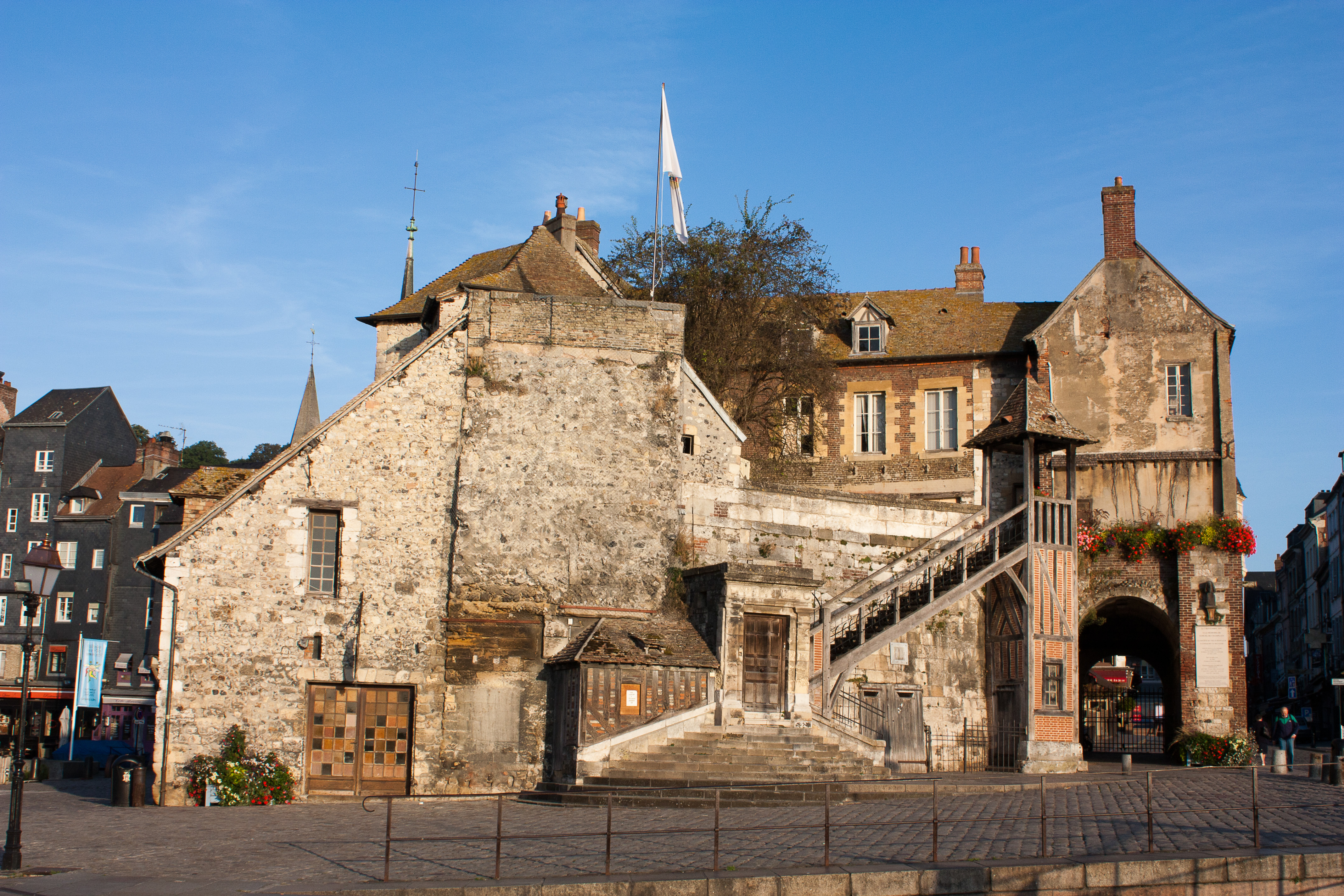 The Lieutenancy, on early morning.